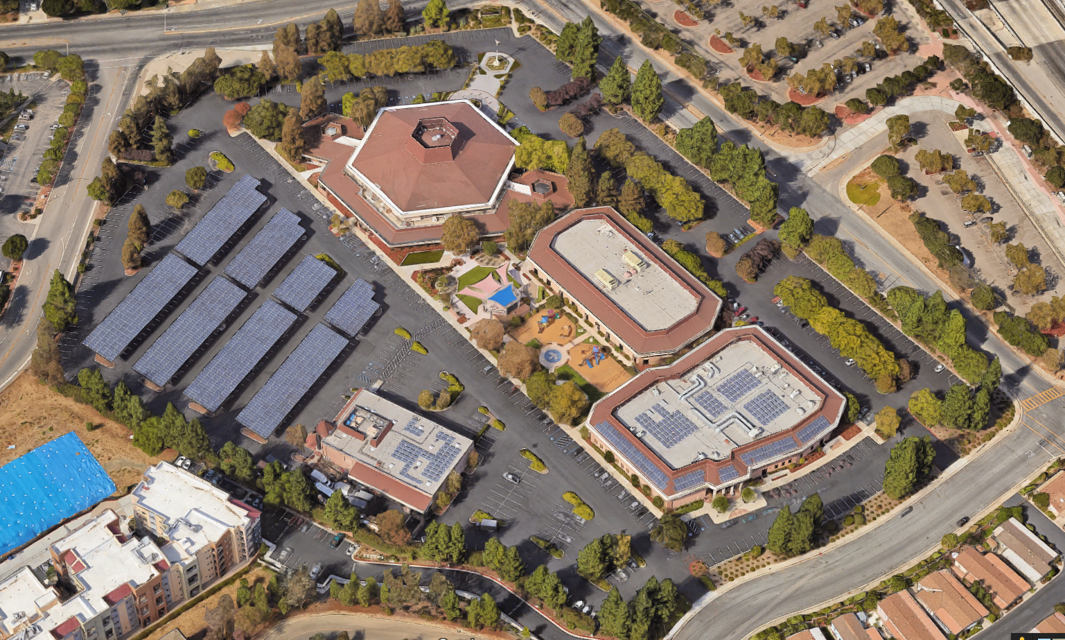 University Preparatory Academy Campus 3D Render